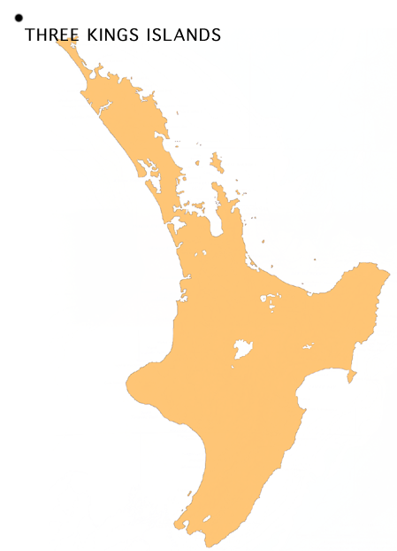 Location map of the Three Kings Islands, New Zealand